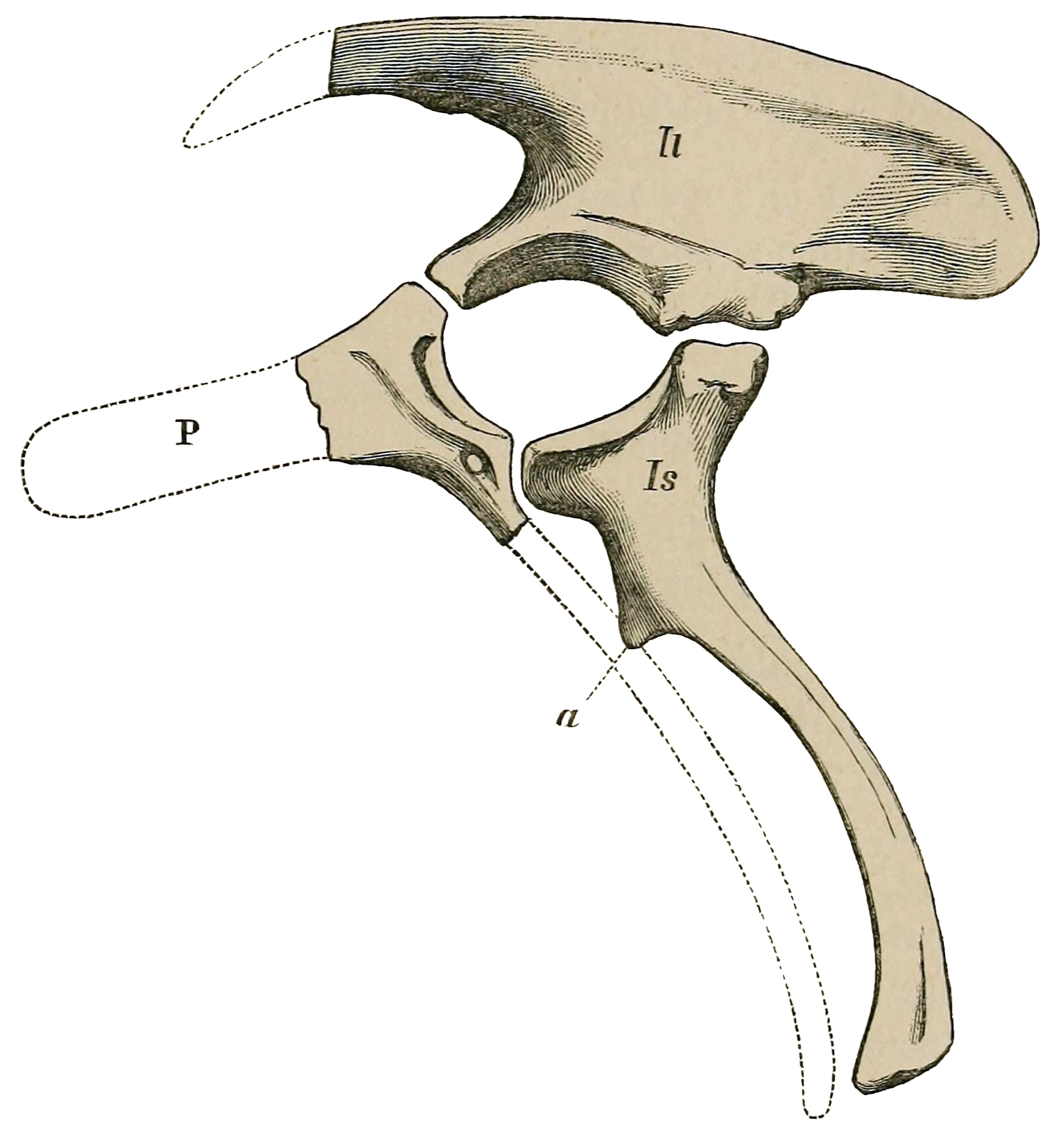 Pelvis of Barilium dawsoni.